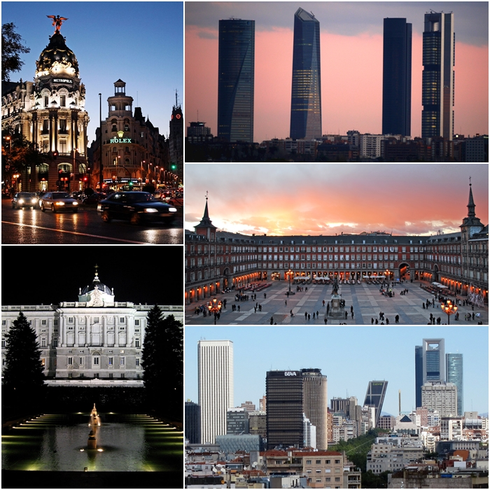 Collage of Madrid, Spain